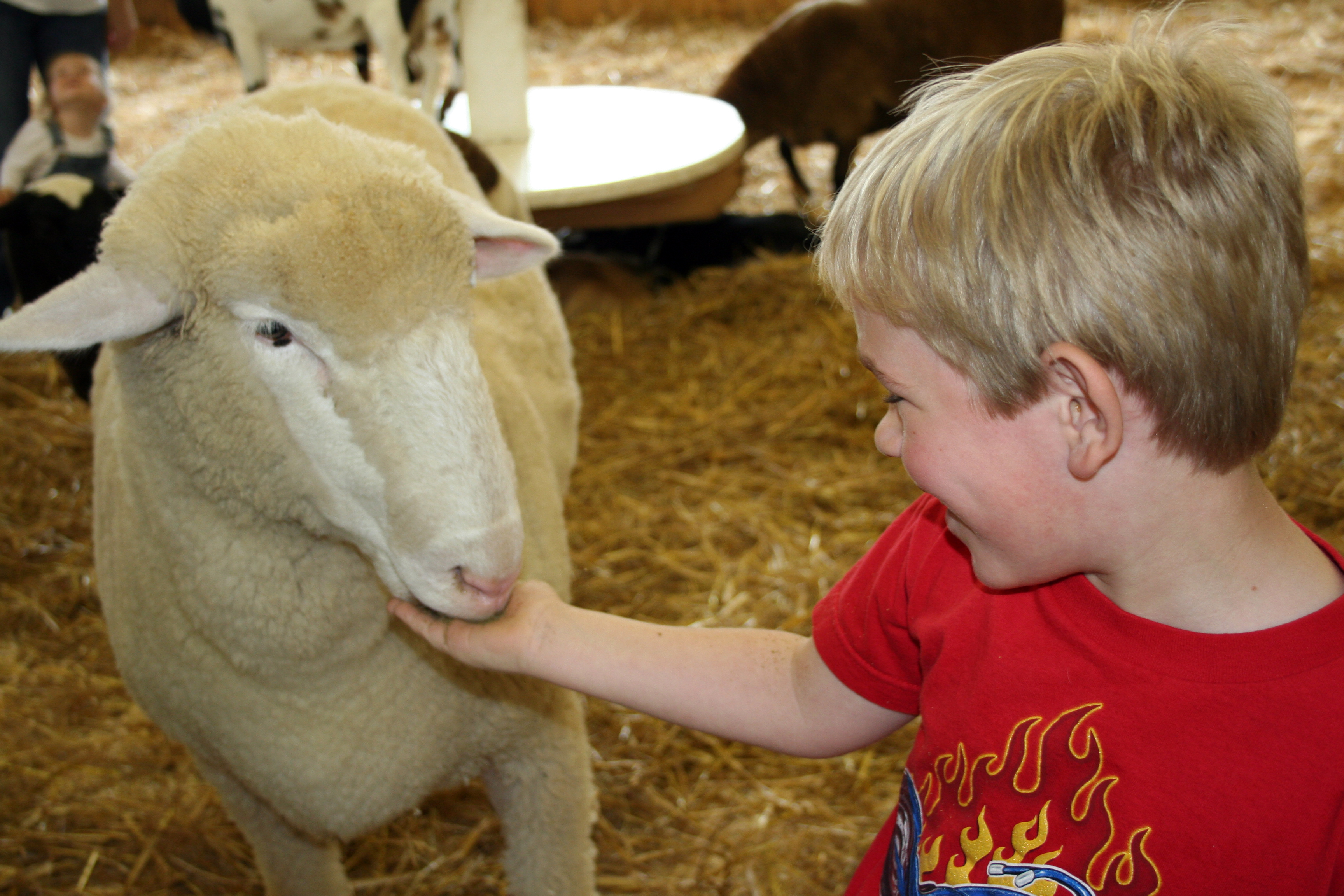 Feeding the sheep at Old McDonalds Farm, Fryeburg fair.